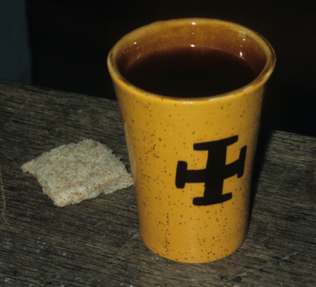 The wayfarer's dole at the Hospital of St Cross (Winchester)